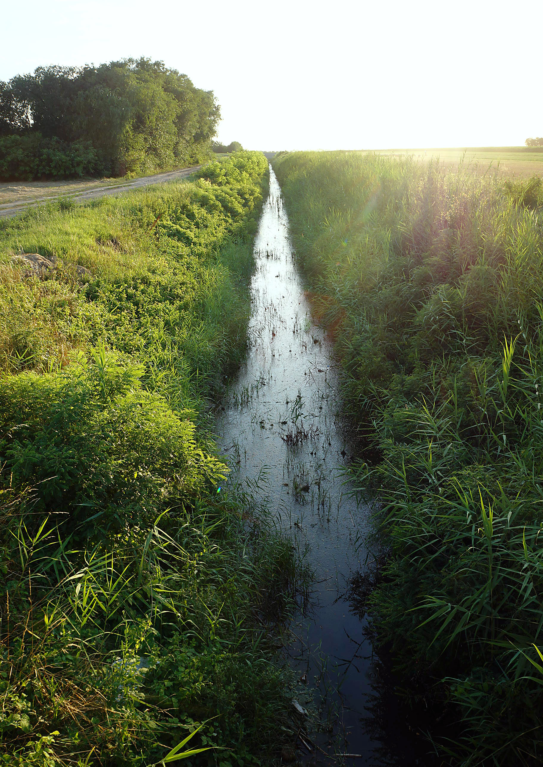 River in Vojvodina (Serbia) by name